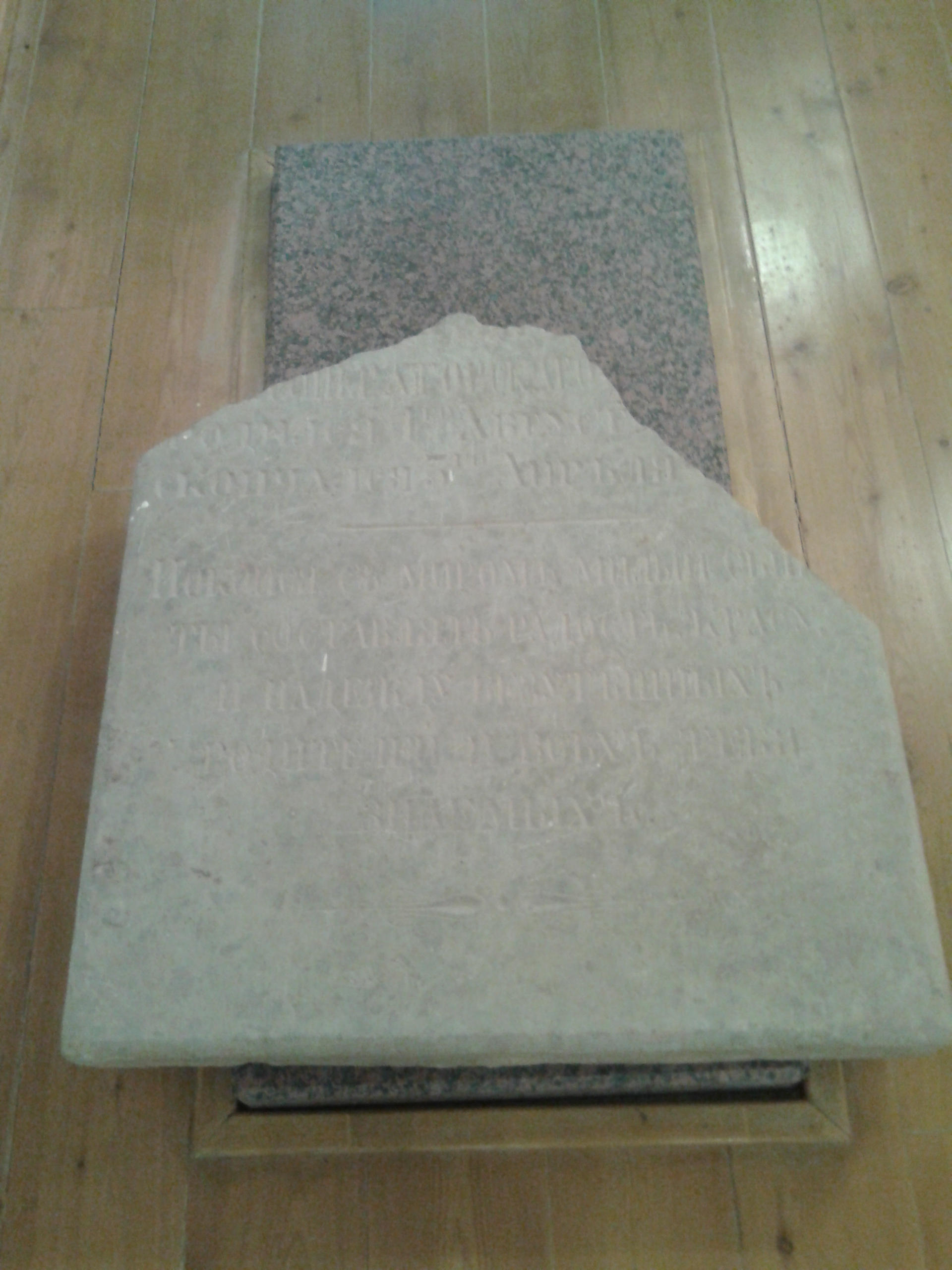 The tomb in the lower Pogi church